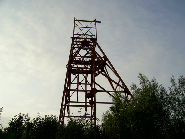 Francis Colliery Headgear This is all that remains of the former Francis Colliery (Dubie Pit)